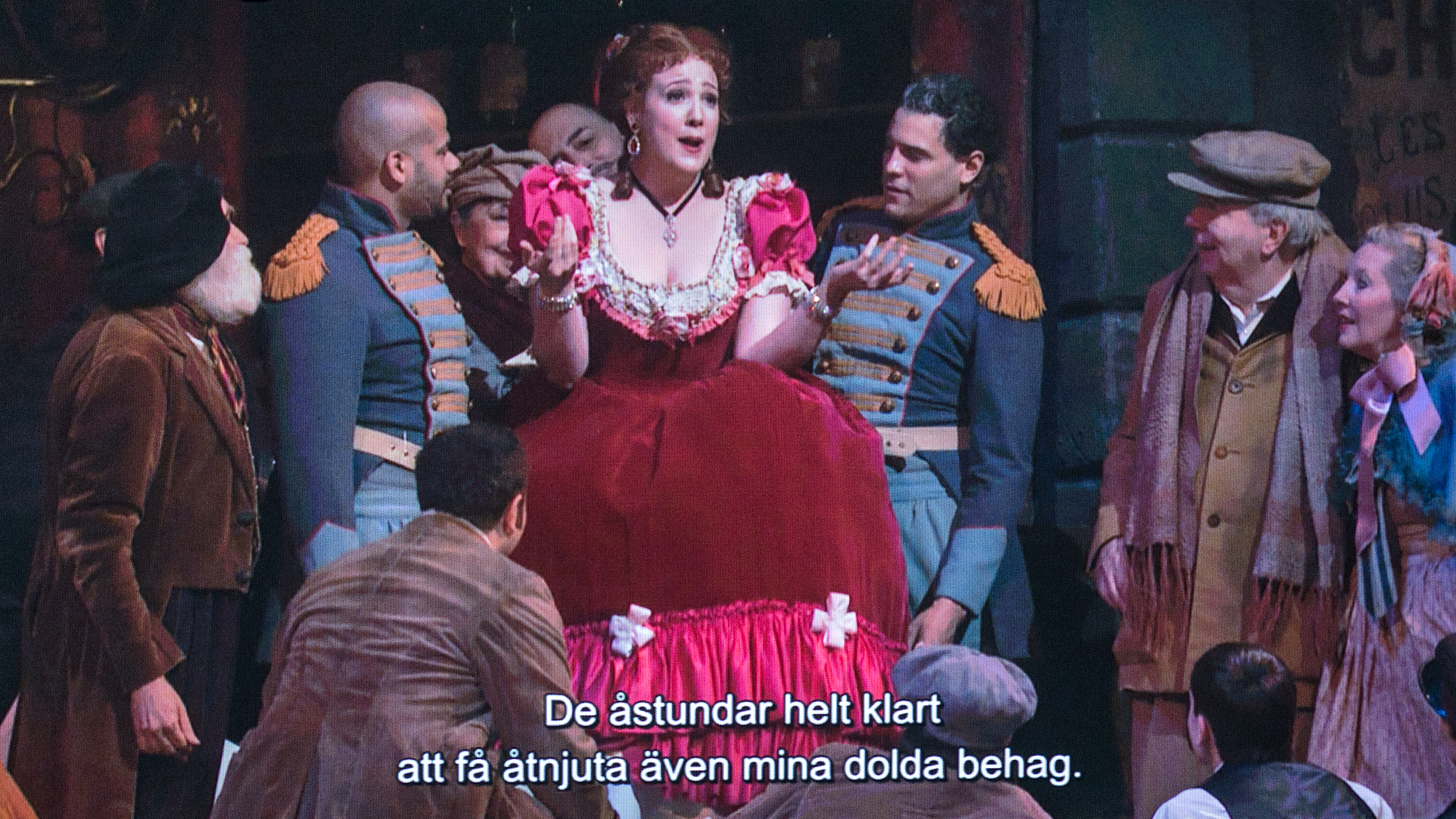 La Bohème from the Metropolitan Opera April 2014